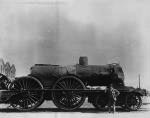 Boiler Explosion of Loco # 97 of Rhymney Railway in Cardiff